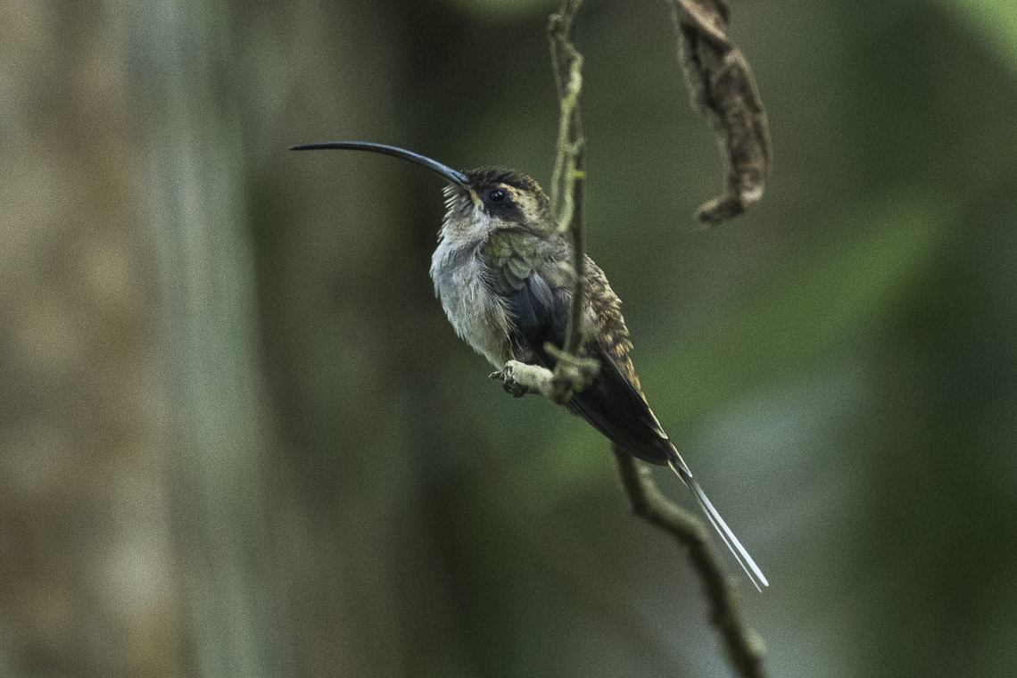 Eastern Long-tailed Hermit - Rio Tigre - Costa Rica_MG_8436